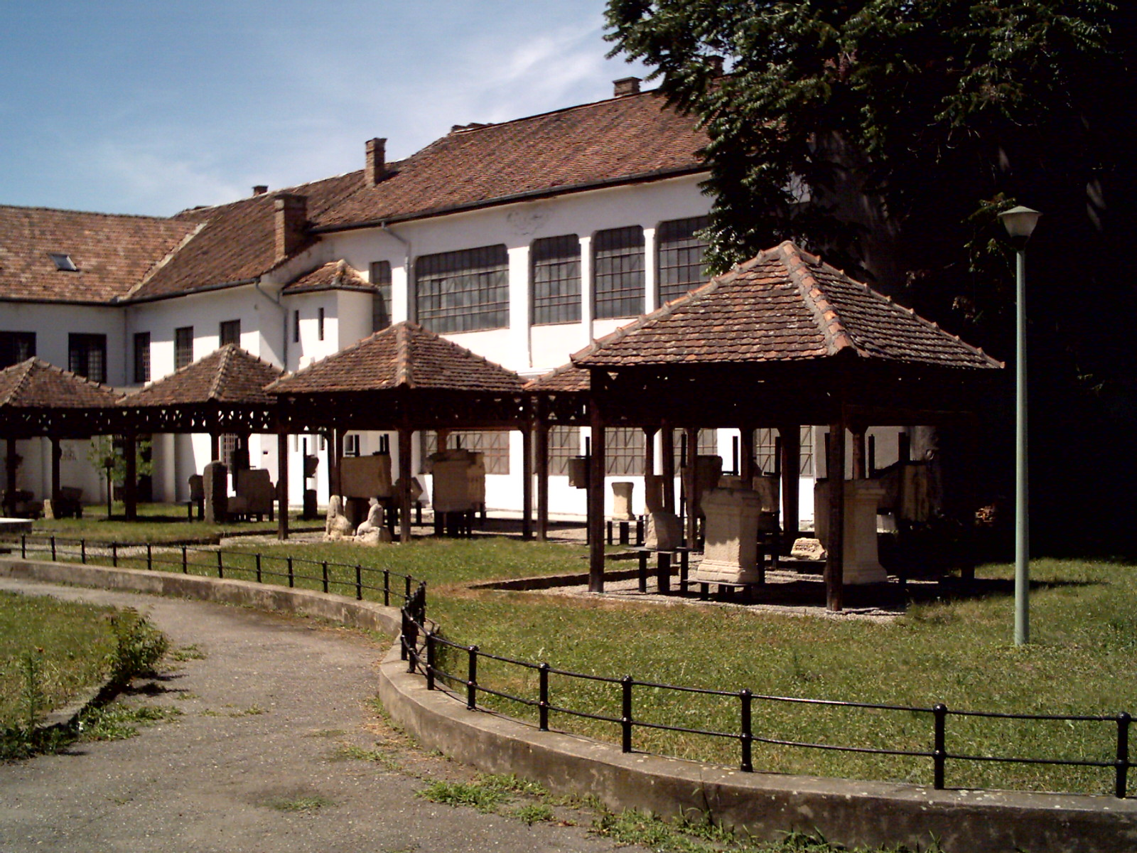 Roman relics displayed at the County Museum Made by Morar Tamás and Balázs Szilárd ( , )